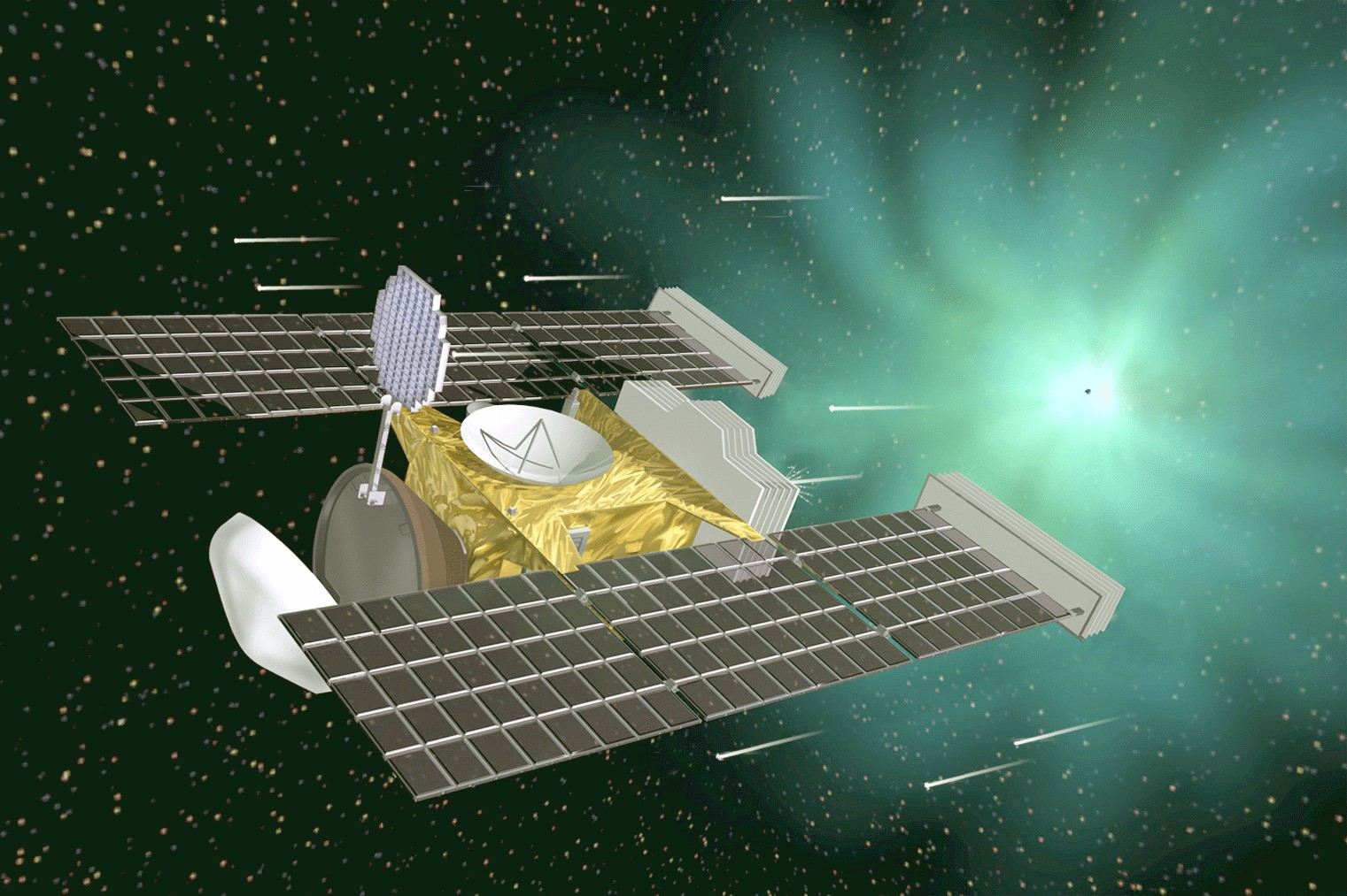 Artist's rendering of the Stardust spacecraft.